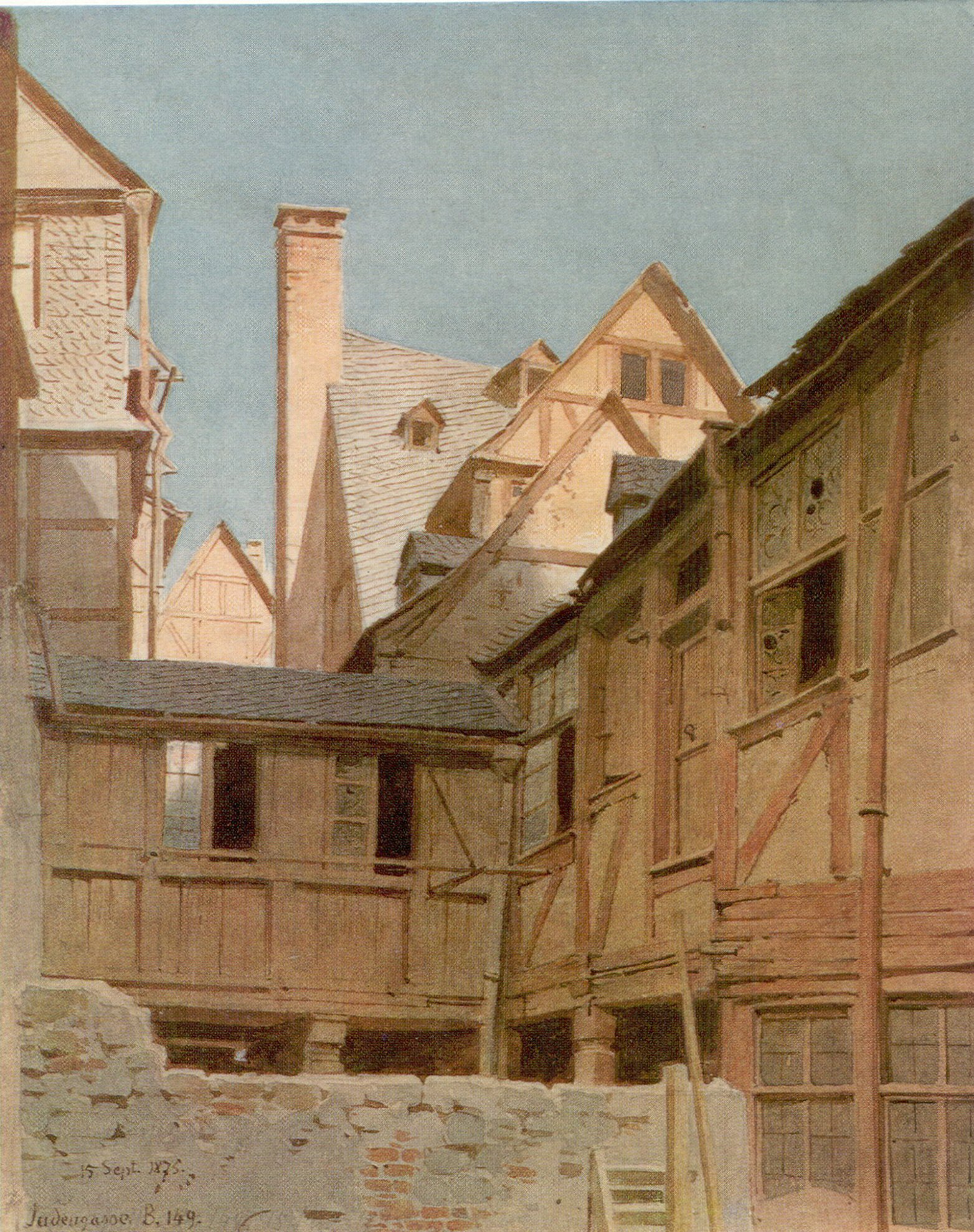 The Judengasse (former jewish ghetto)